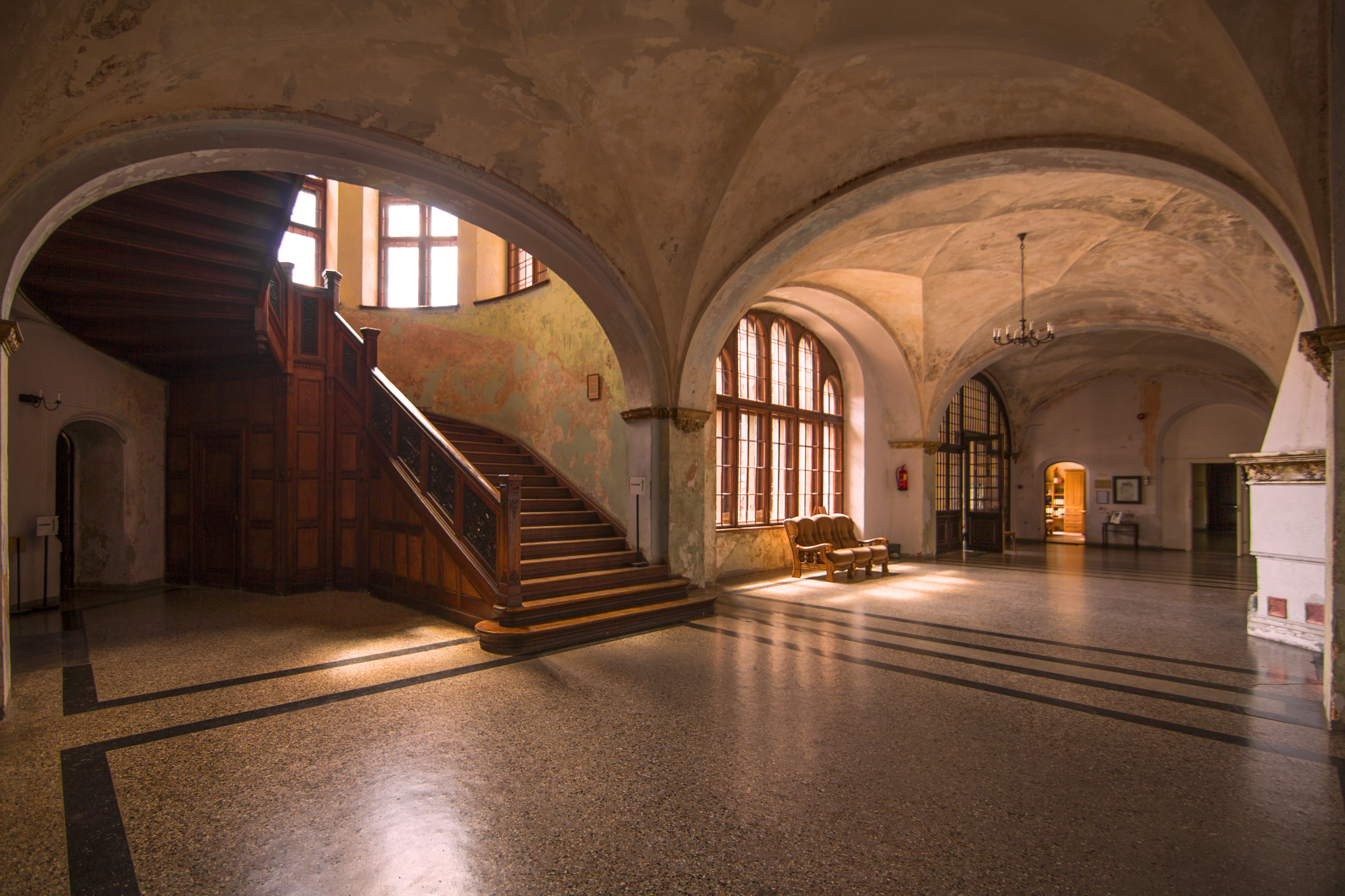 Latvia, town of Cesvaine. Interior of the castle.